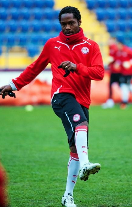 Jean II Makoun